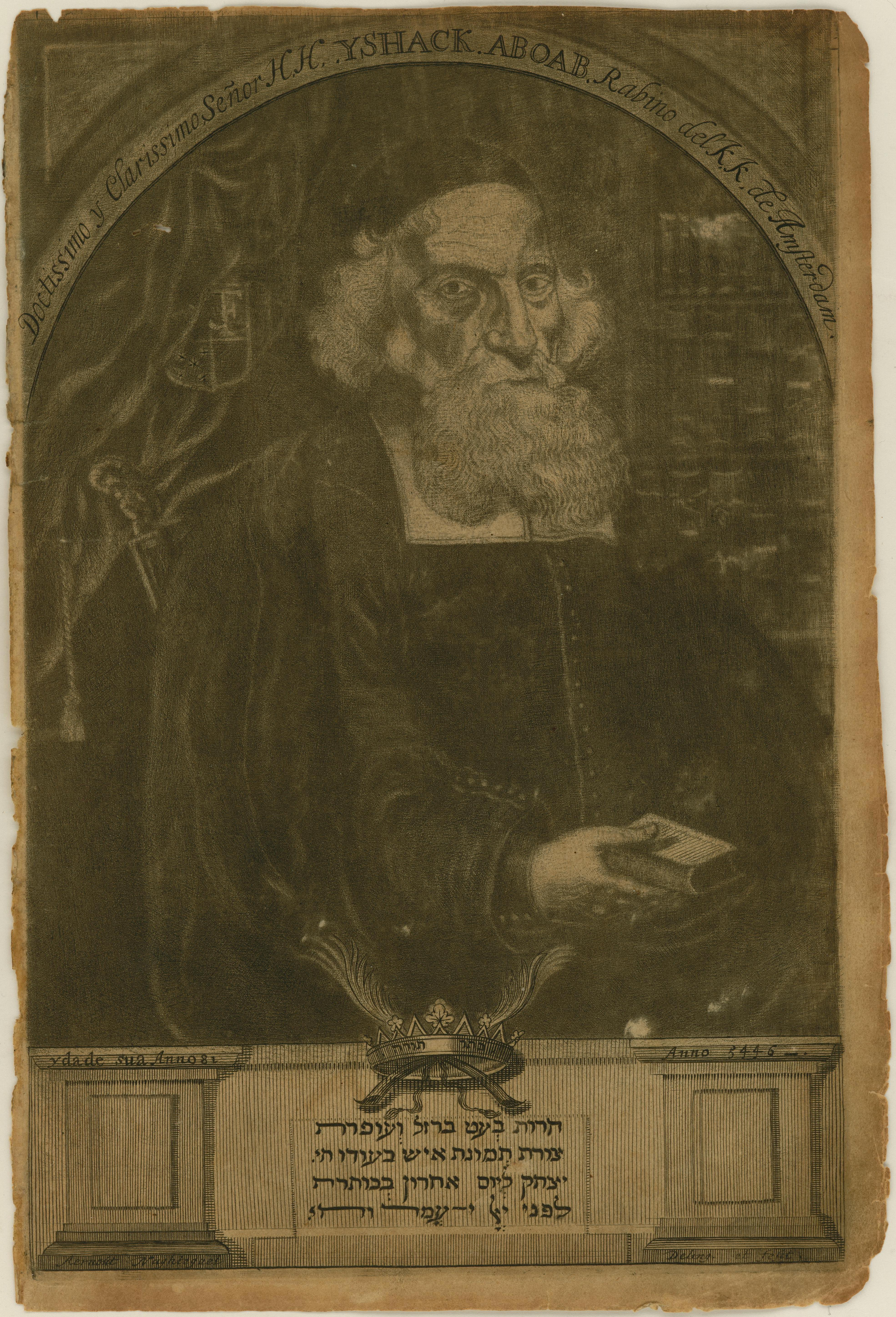 Exact words from the site: "This work is a translation of the Pentateuch into Spanish, with a commentary by Isaac Aboab de Fonseca. It was prepared for Jews in Dutch Brazil, who because of their Iberian heritage would be able to read Spanish. The portrait is of the commentator, Aboab de Fonseca, who was not only the first rabbi in Brazil but also the first rabbi to come to America."